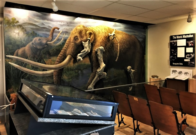 Manis Mastodon Site Some of the Site artifacts are on display at the Sequim Museum and Arts Center.